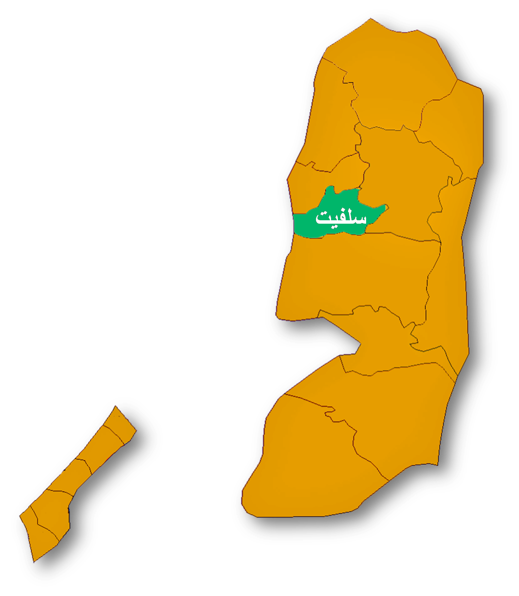 Map of the Palestinian Authorities showing the Governate of Salfeet